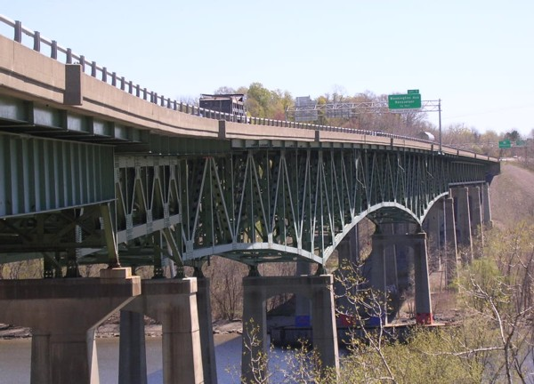 Location: Patroon Island Bridge over the Hudson River in Albany, New York Description: Looking East, with a view of the differing structural supports of the Patroon Island Bridge from the bridge embankment on the west side of the Hudson River.